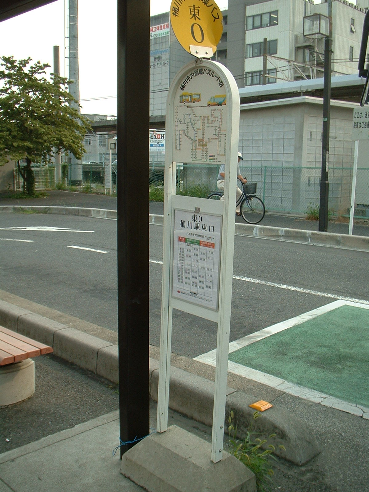 Benibana Go Okegawa-eki Higashiguchi (Okegawa Station east side) bus stop